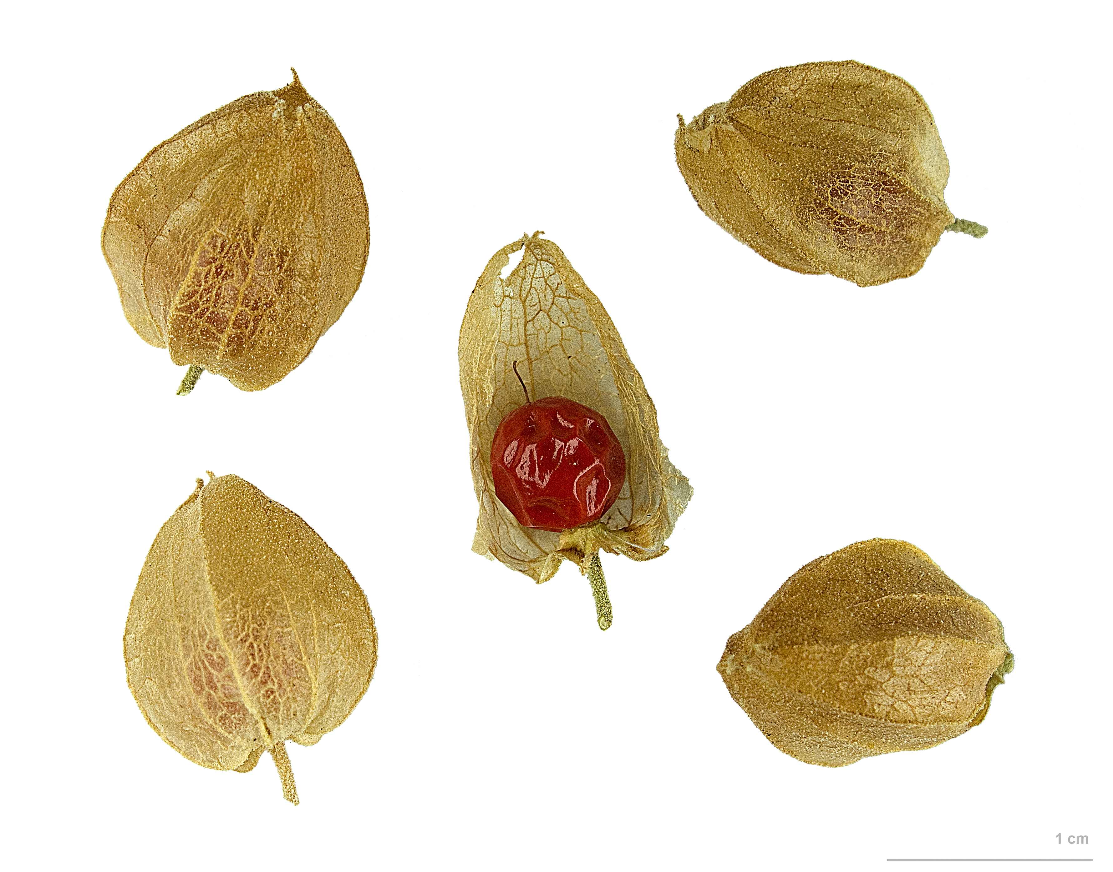 Indian ginseng, fruit